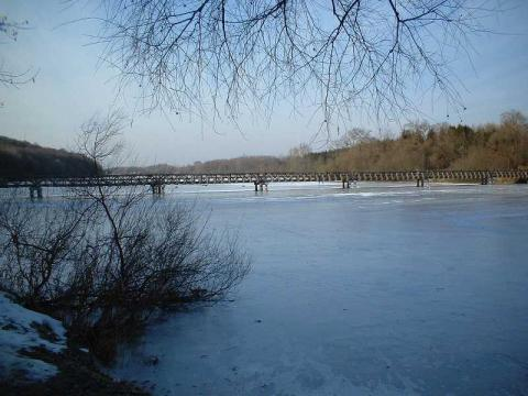 Winter - Balatonboglár - Hungary - Europe